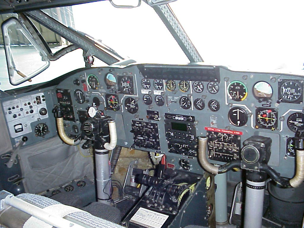 Short S.C.7 Skyvan Cockpit